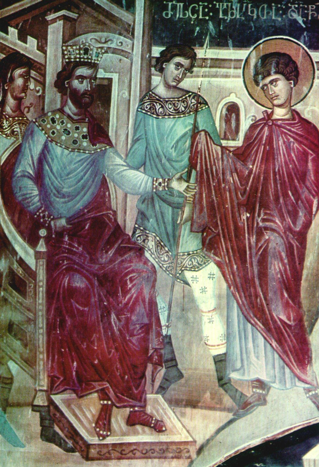 St. George before Diocletianus. A mural from the Ubisi Monastery, Georgia.